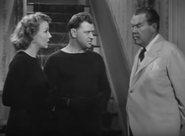 Left to right: Claudia Dell, Charles Jordan, and Sidney Toler in Black Magic (1944) aka Meeting at Midnight - cropped screenshot